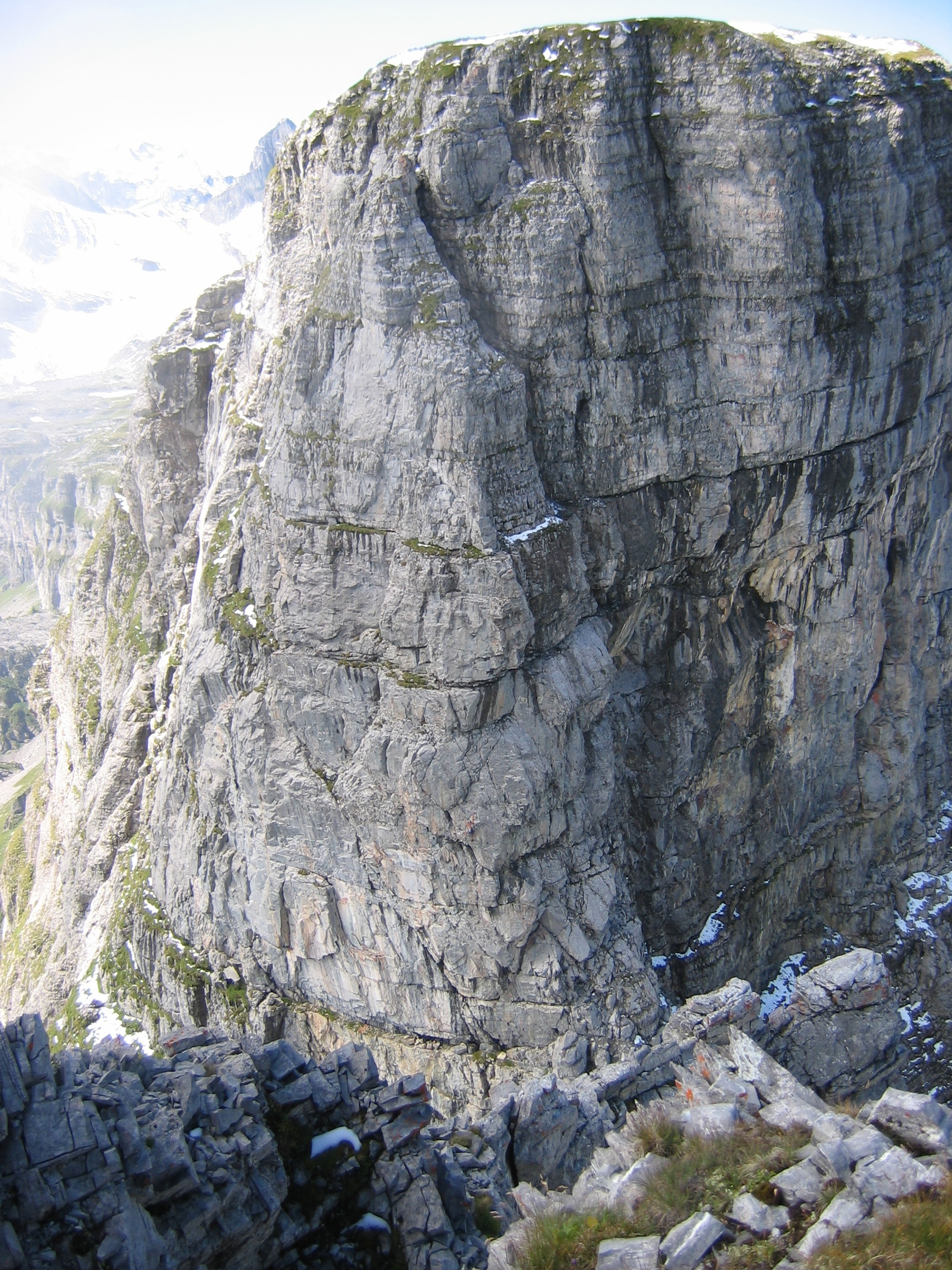 The Hinterer Eggstock in the Glarus Alps, seen from the Mittlerer Eggstock